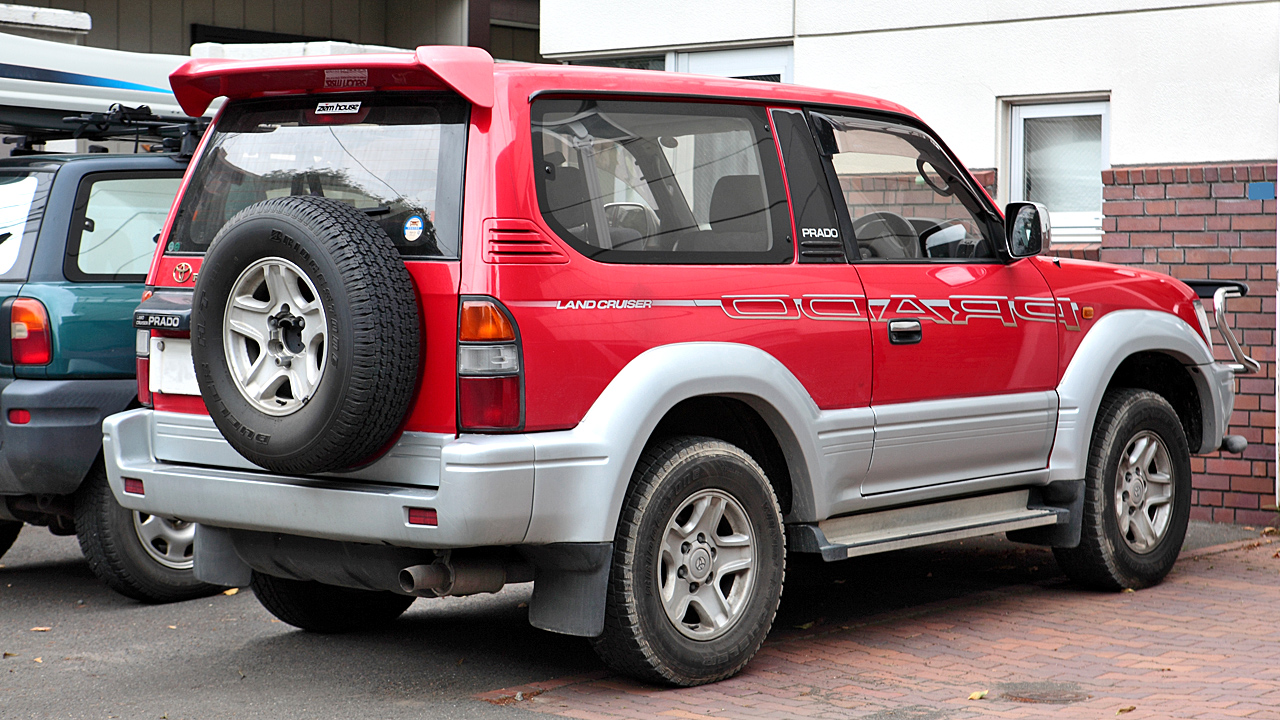 Toyota Land Cruiser 90 Prado 3.0DT RX